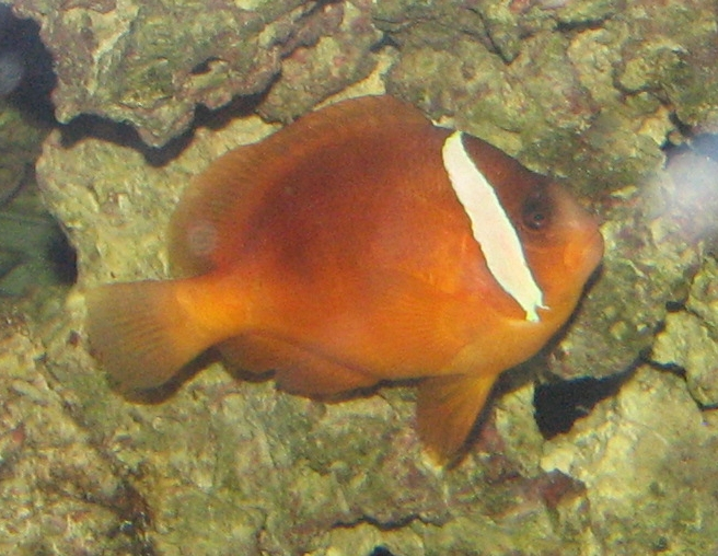 Tomato Clownfish (Amphiprion frenatus) at Newport Aquarium